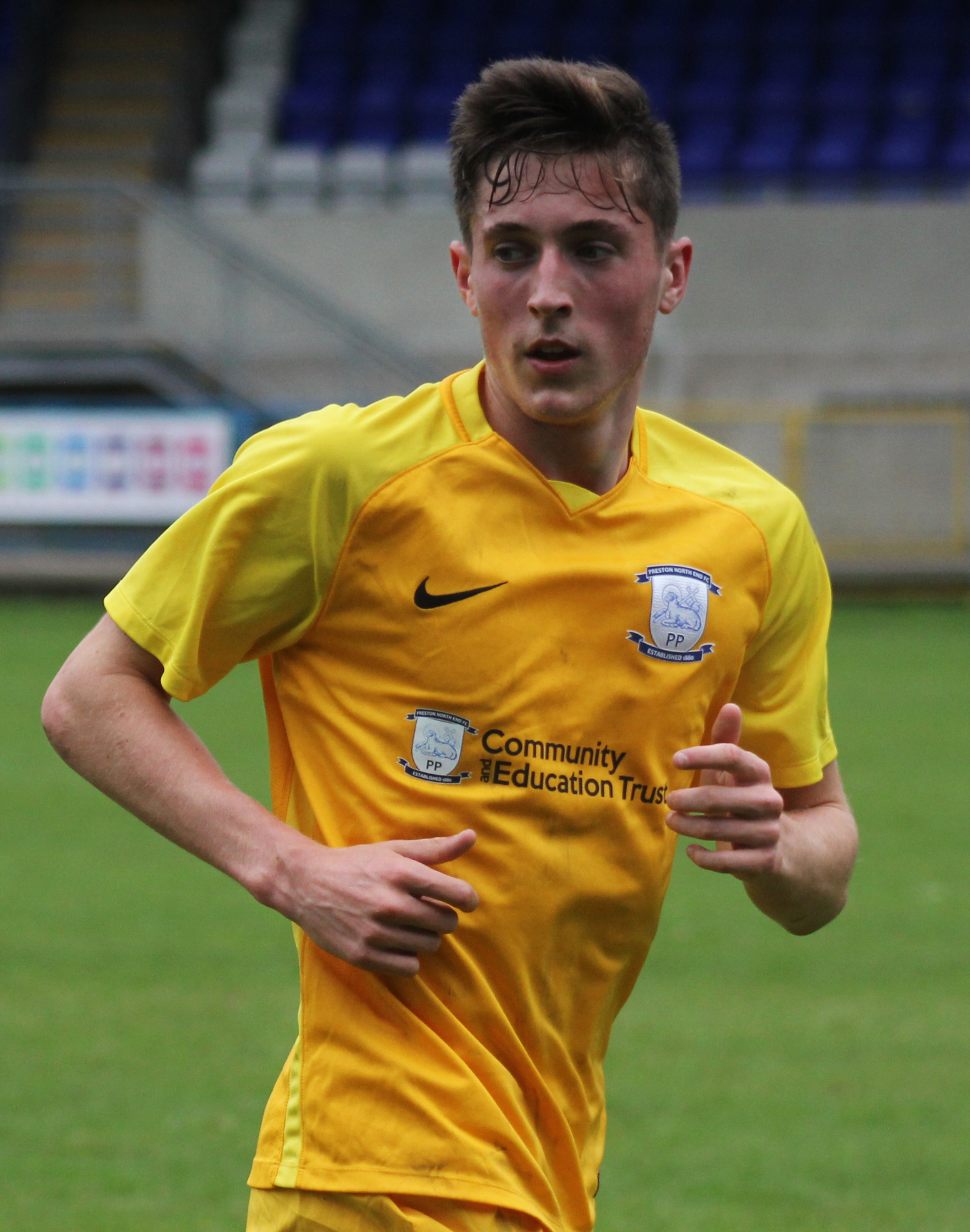 Michael Howard playing for Preston North End U18s in a 3–2 EFL Youth Alliance Northwest Division defeat to Rochdale U18s on Saturday 14 October at Bower Fold